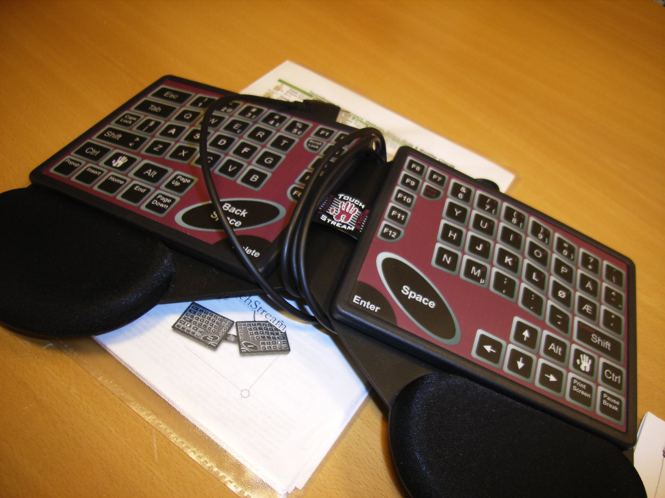 The Touchstream keyboard by Fingerworks, an ergonomic keyboard using gesture recognition features. Discontinued when Apple bought Fingerworks in 2005, it's since been reported that its design was a major influence on the iPhone.